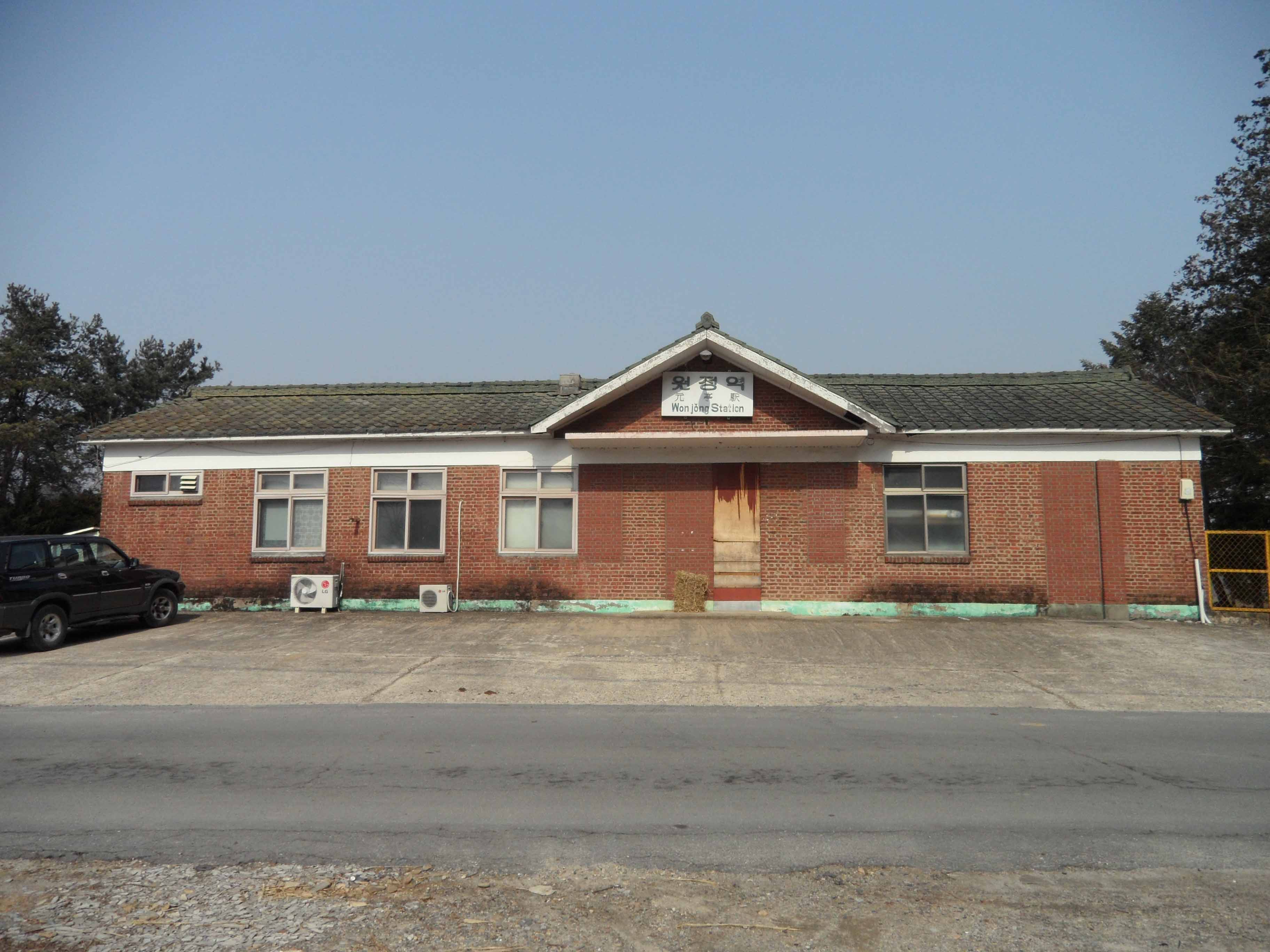 원정역 폐역